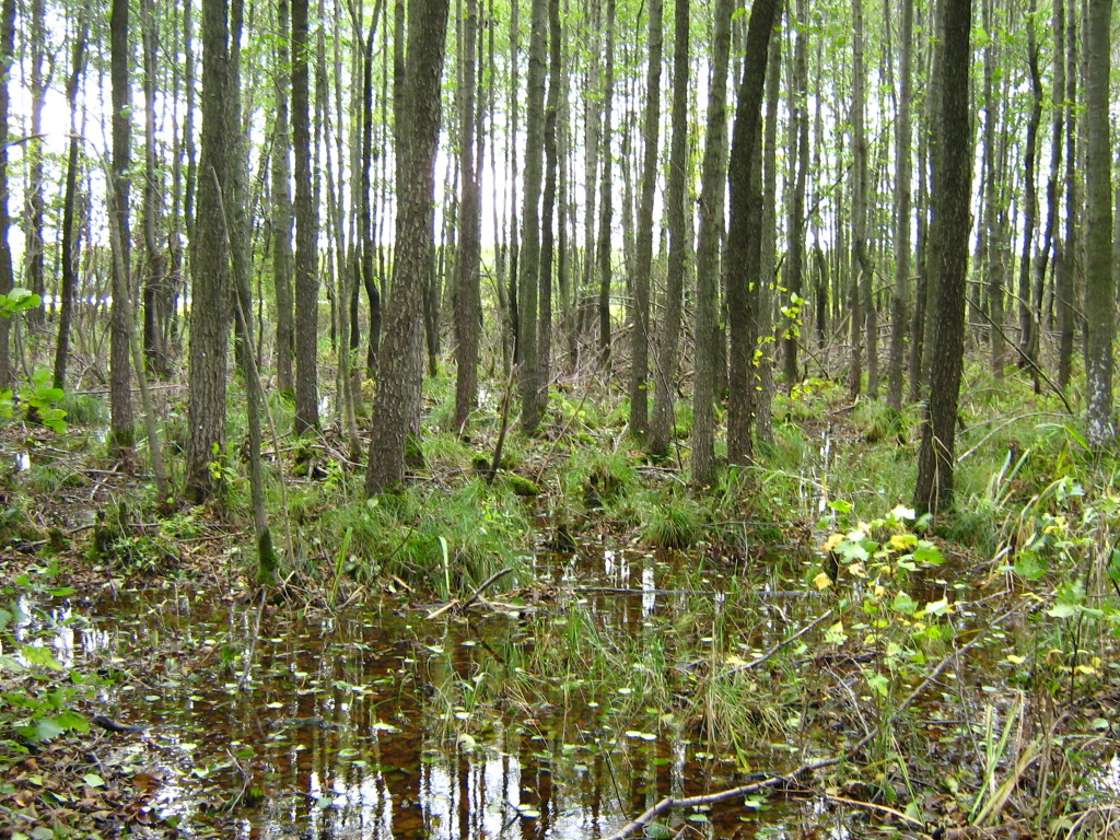 Wet alder carr in Poland.